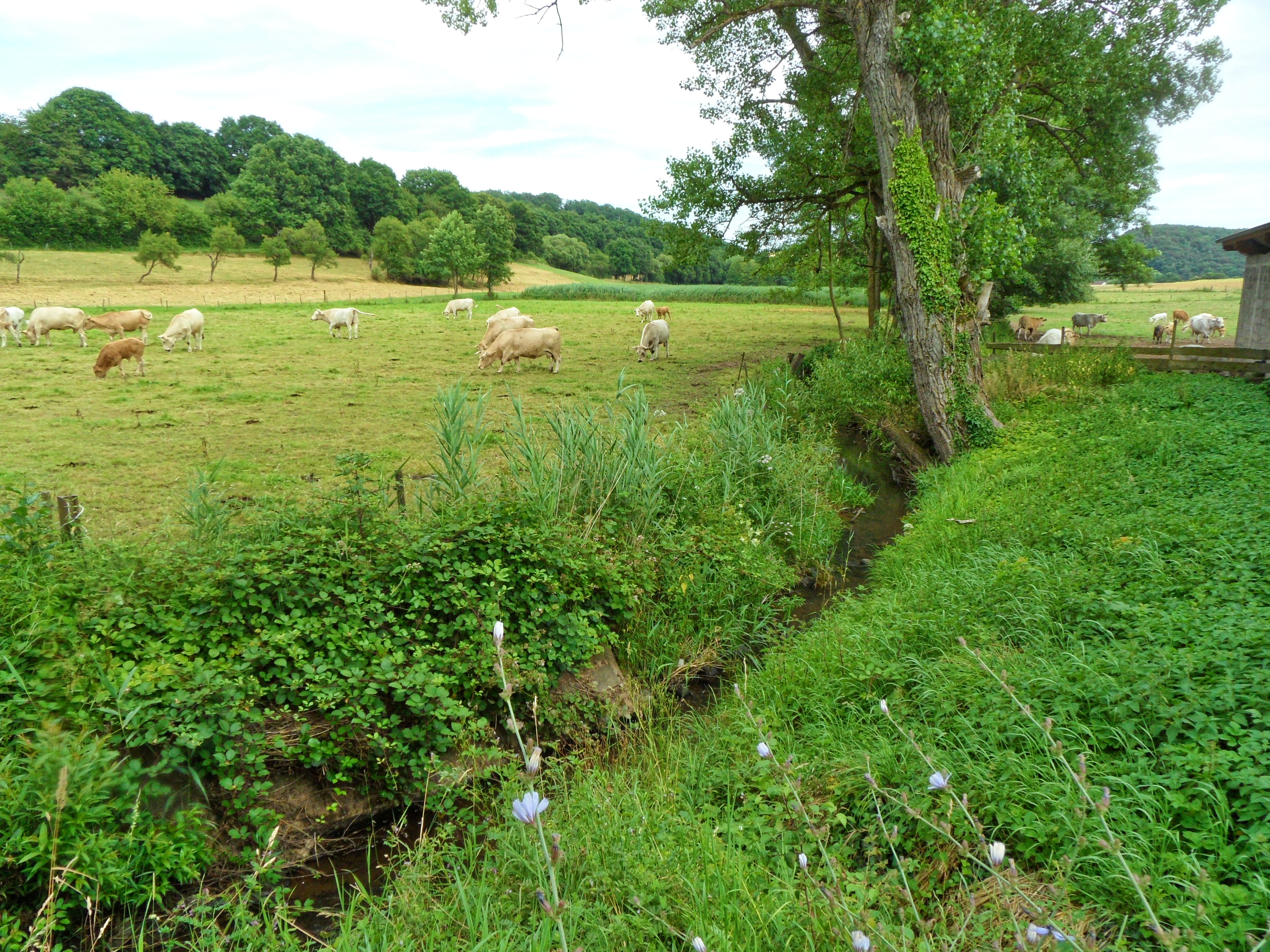 Cattle are grazing next to the Rischbach, a little watercourse in Western Palatinate. Location: Samuelshof (hamlet), Municipality of Weilerbach, Kaiserslautern County, Rhineland-Palatinate, Germany.